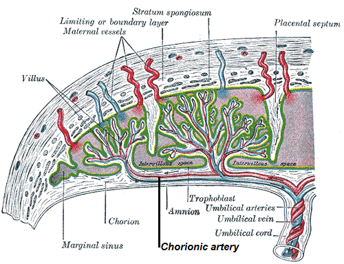 Derivative of File:Gray39.png Chorionic artery